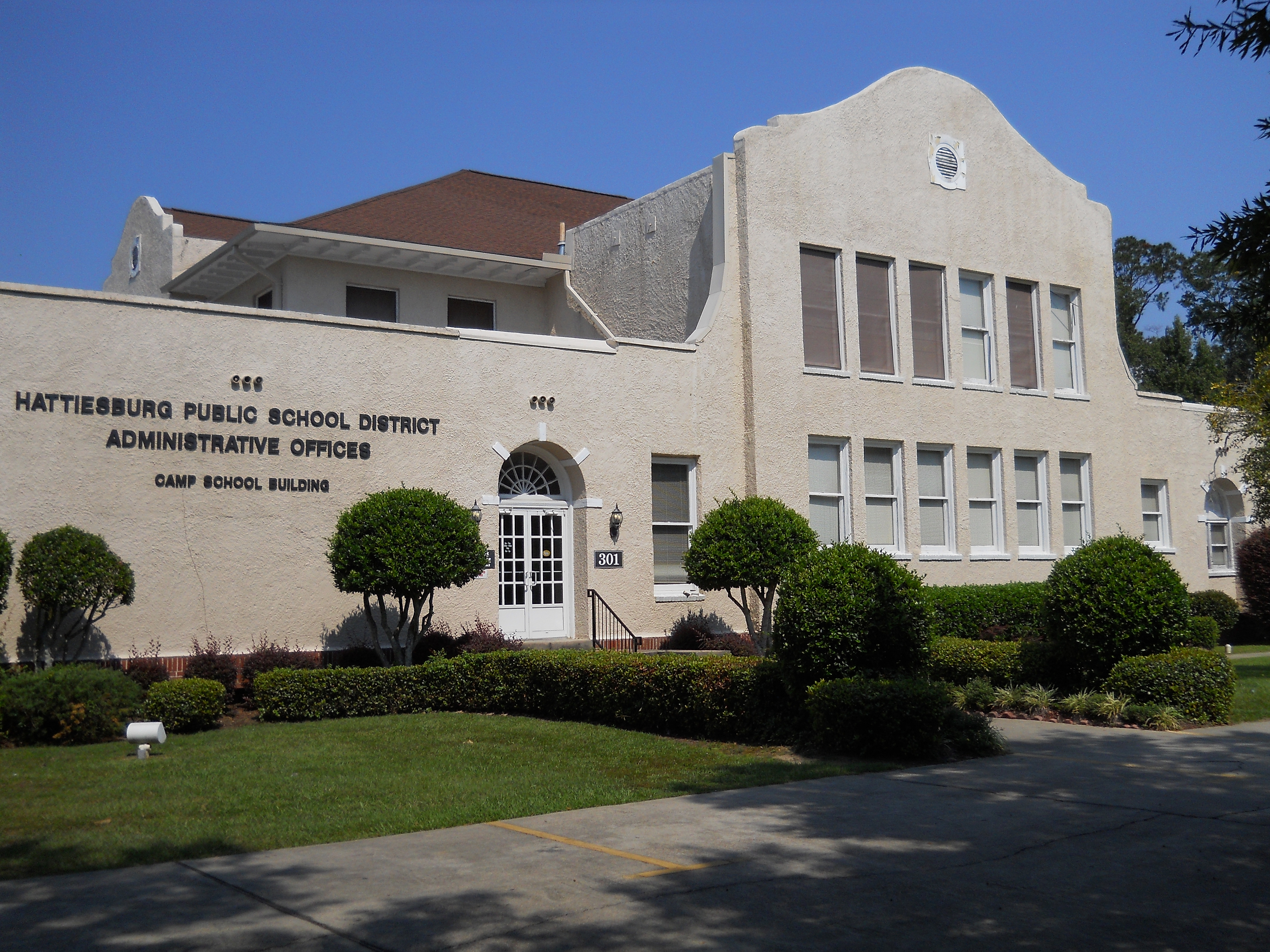 Oaks Historic District. Hattiesburg Public School Administration Building (Hattiesburg Public School District) at 301 Mamie Street, Hattiesburg, MS. Formerly Camp Elementary School, built circa 1907. Located in Oaks Historic District.